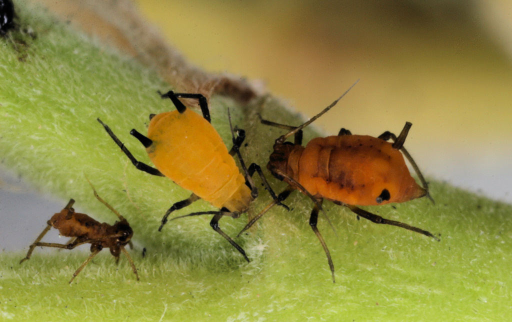 Picture showing aphid colors. To the left is the skin shed by an aphid.